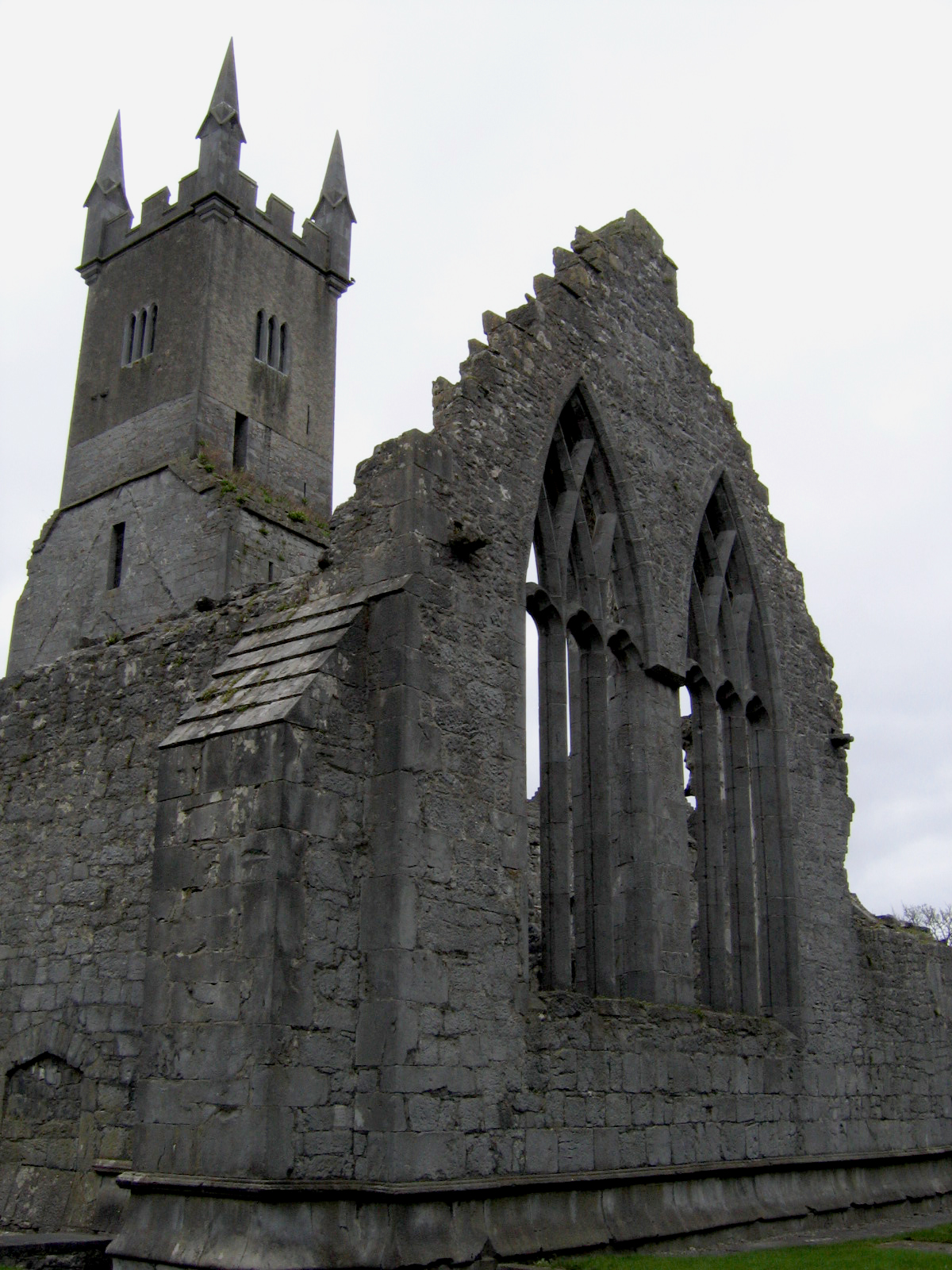 Ennis Friary, Ennis, County Clare, Republic of Ireland.